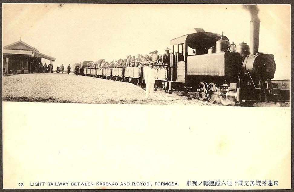 LIGHT RAILWAY BETWEEN KARENKO AND R.GYOBI, FORMOSA